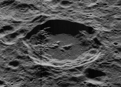 Oblique view of Cantor, on the far side of the moon, facing west.